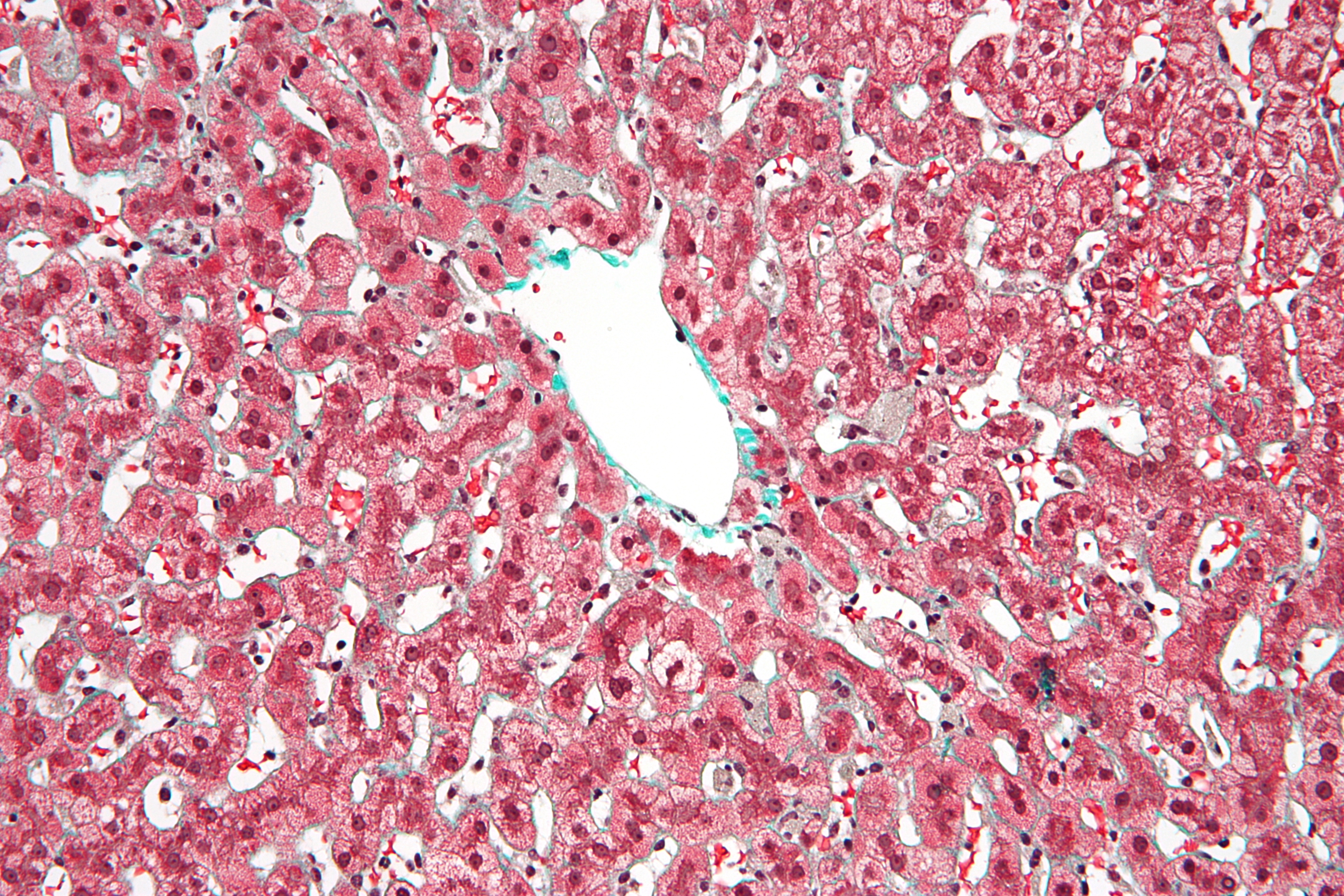 High magnification micrograph of congestive hepatopathy, also known as nutmeg liver and cardiac cirrhosis. Liver biopsy. Trichrome stain. Congestive hepathopathy is characterized by: Perisinusoidal fibrosis, Hepatic venule dilation, and Dilation of the sinusoids in zone III (centrilobular). See also Image:Congestive hepatopathy intermed mag.jpg Image:Kupffer cells high mag cropped.jpg - cropped version of this image.